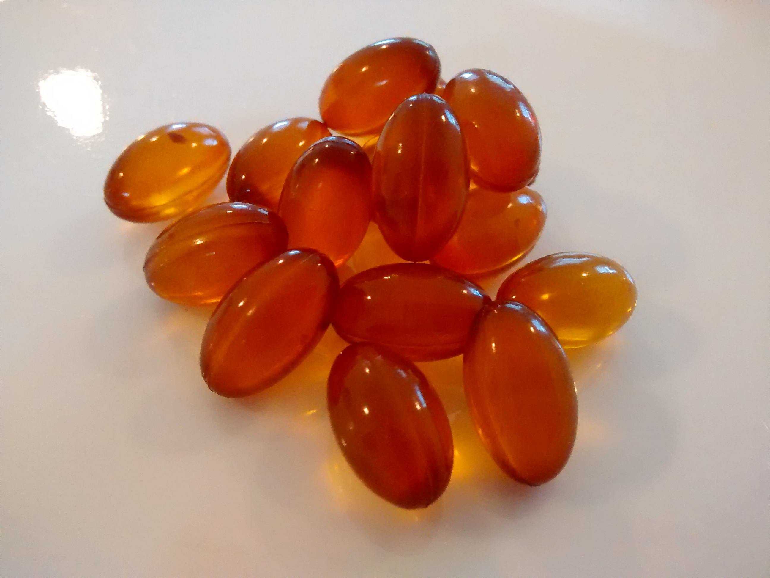 Vegan (algae-derived) docosahexaenoic acid supplements produced by Source Naturals.